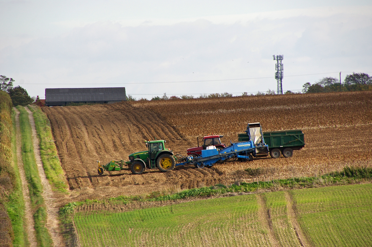 Harvesting potatoes near Barton Hill Farm near Barton-upon-Humber, North Lincolnshire, Great Britain.